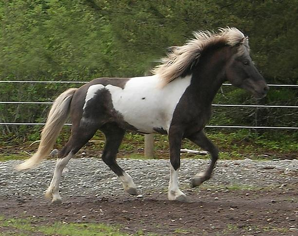 Black Silver Dapple Pinto